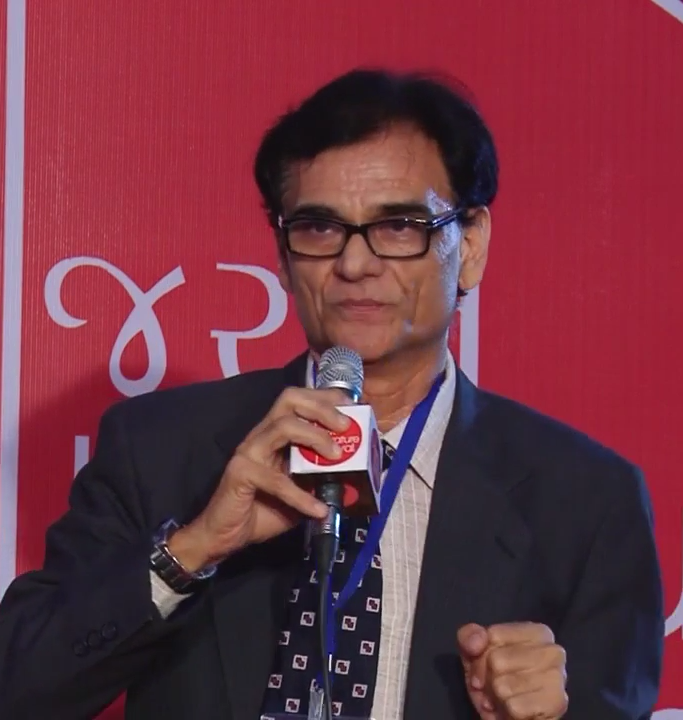 Vinod Joshi at Gujarati Literature Festival Ahmedabad on 18 December 2016